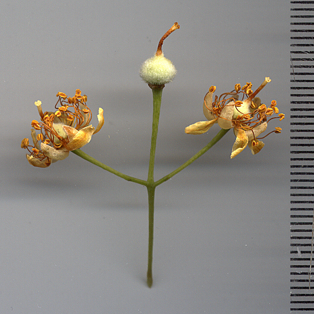 Tilia platyphyllos inflorescence after flowering